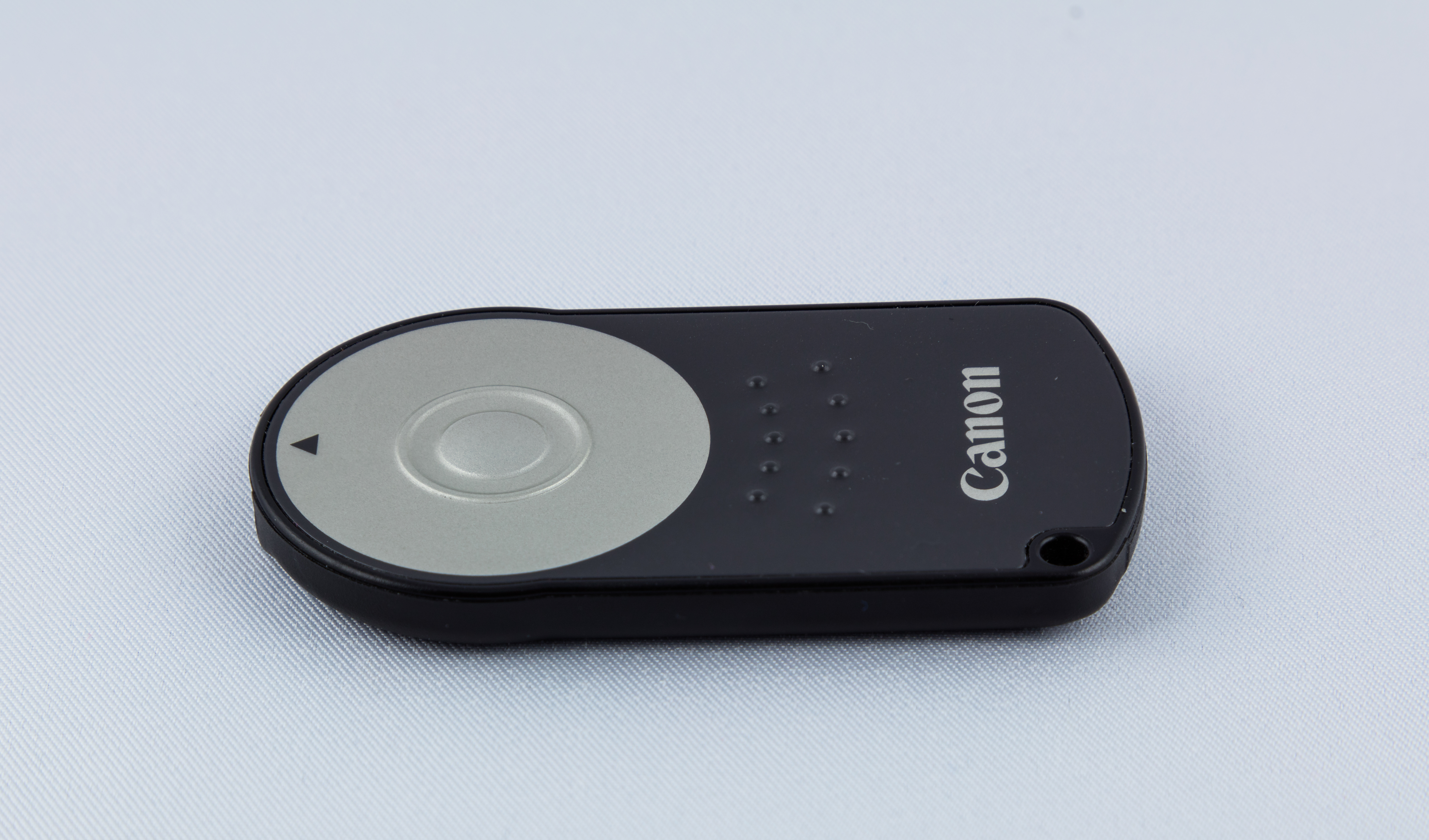 Canon RC-6 wireless remote control